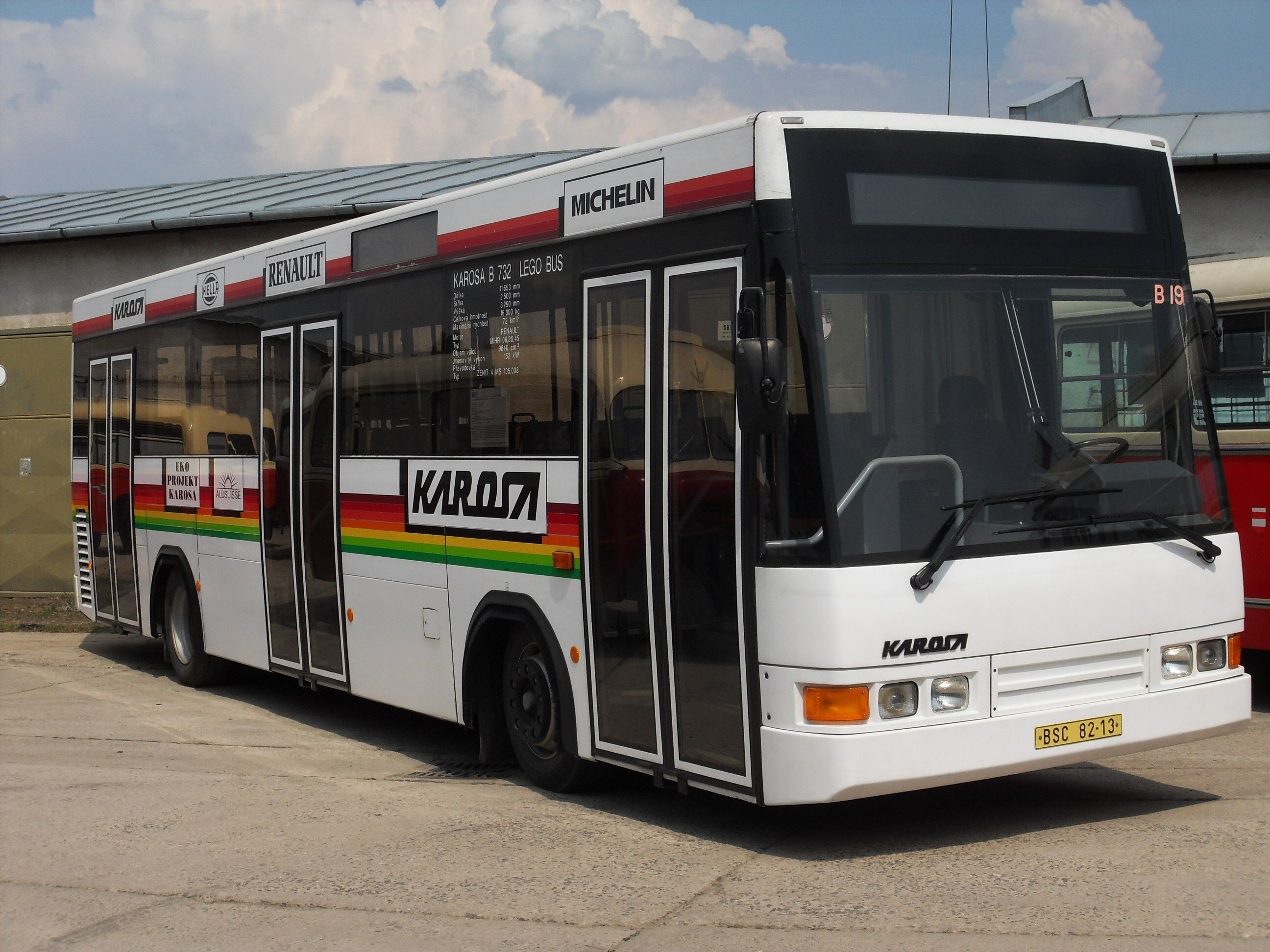 Historical bus Karosa B 732.1670 (ex Karosa), depository of Technical Museum in Brno, Czech Republic